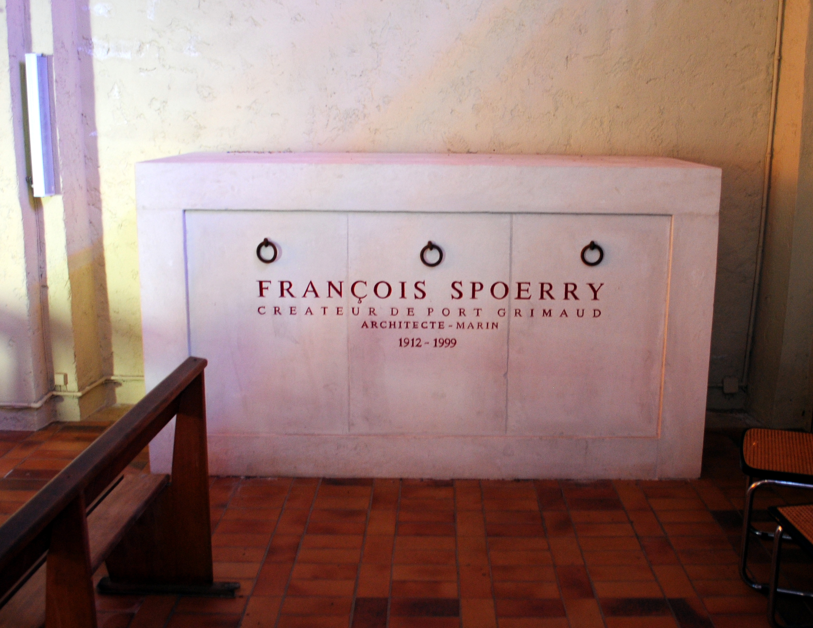 The grave of François Spoerry (1912–1999), in the Saint-François d'Assise church at Port-Grimaud, France.